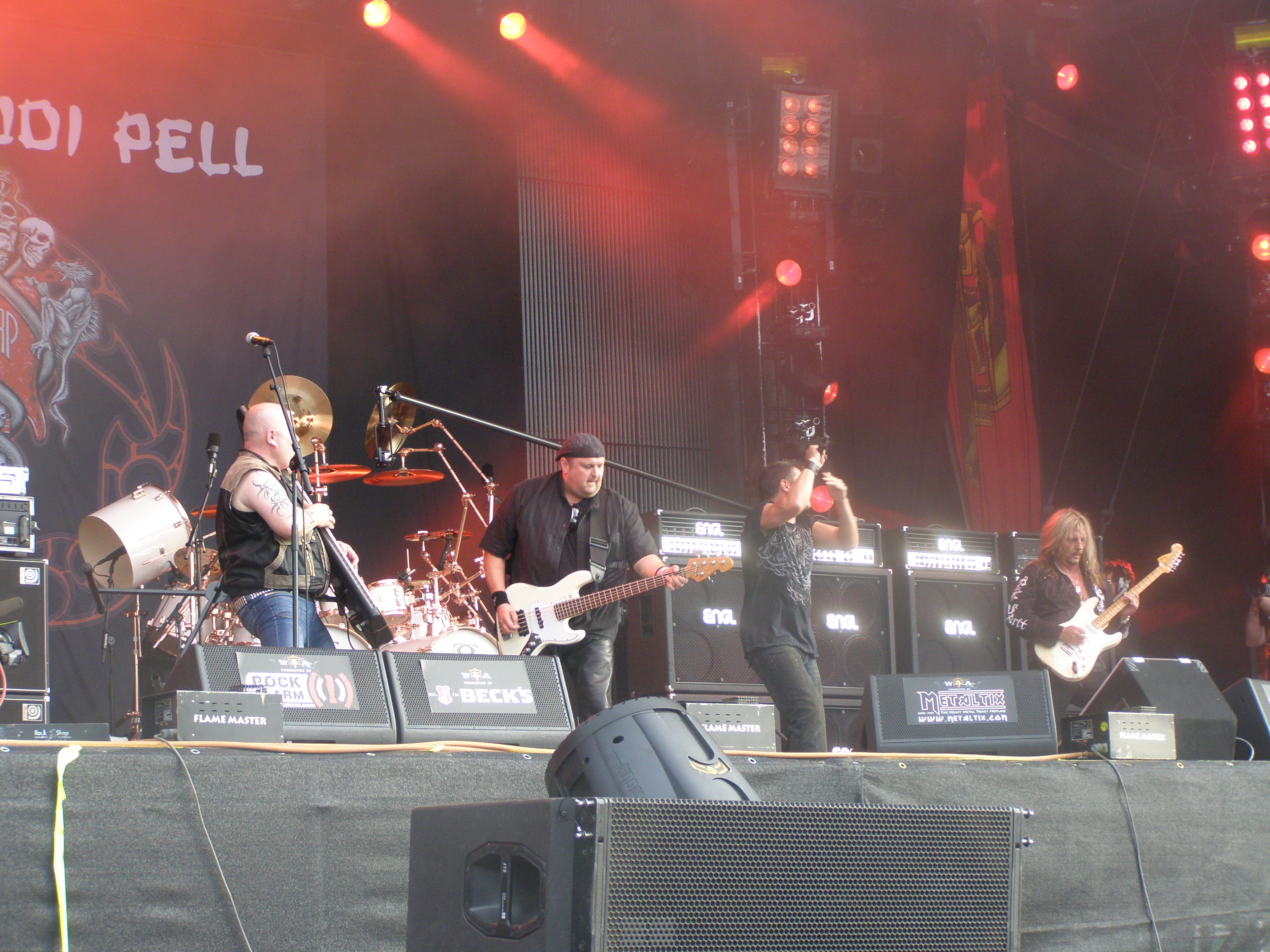 Axel Rudi Pell in Wacken Open Air 2009